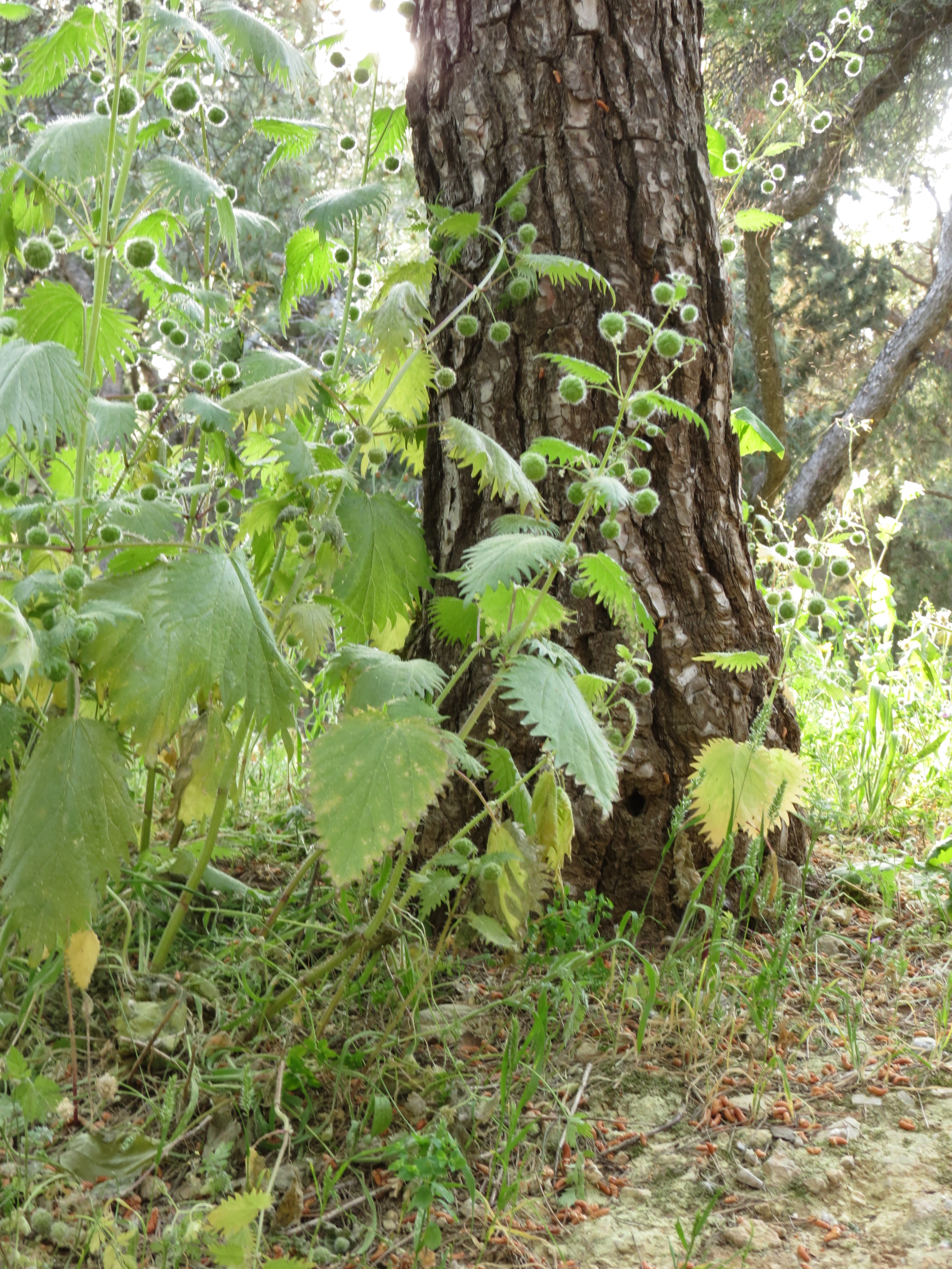 Urtica pilulifera L., Mount Lycabettus, Athens, Greece, 2 April 2014